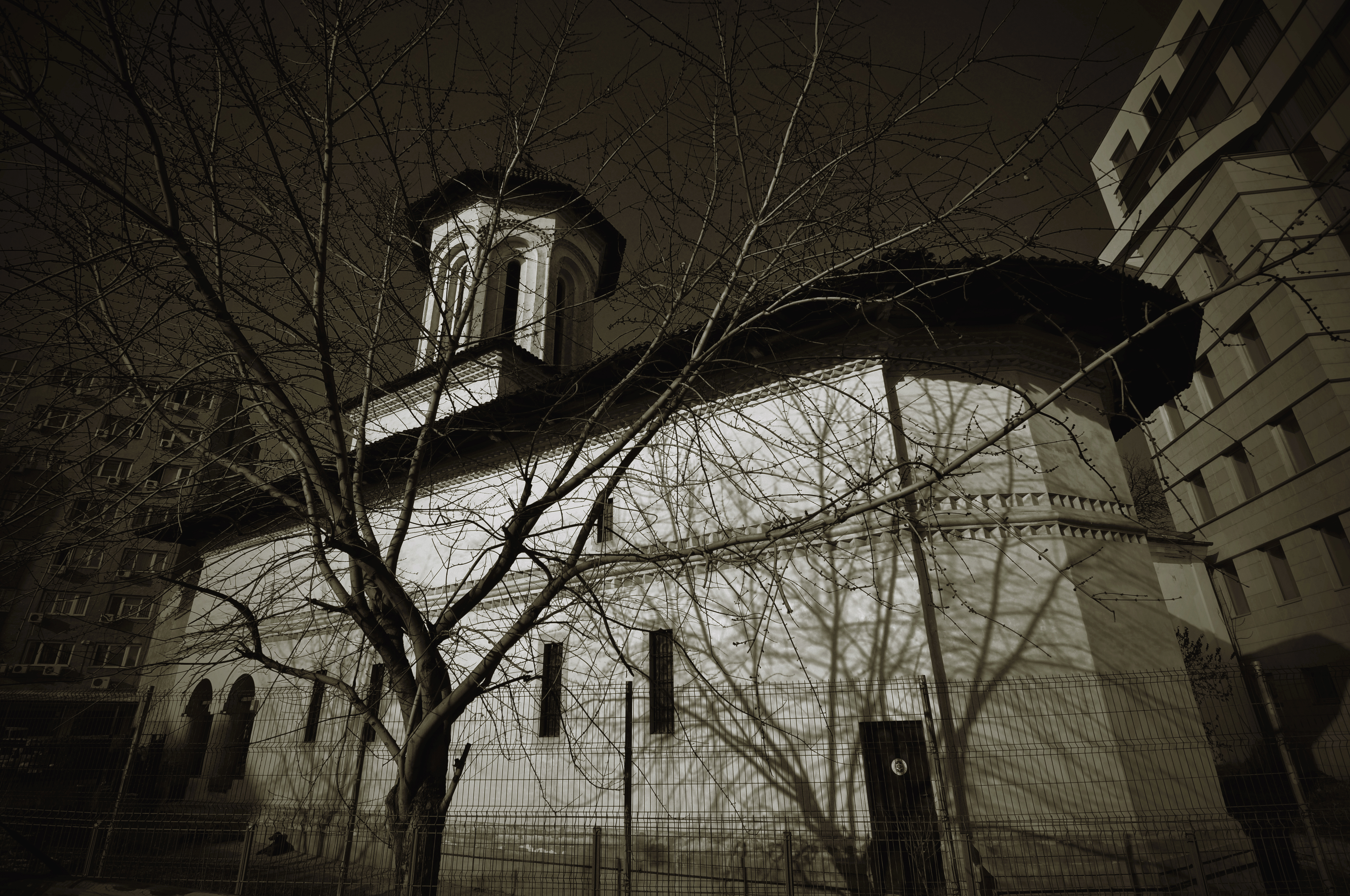 Razvan Church, Bucharest Răsvan Church ensemble